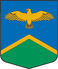 Coat of arms of Ērgļu pagasts, Latvia